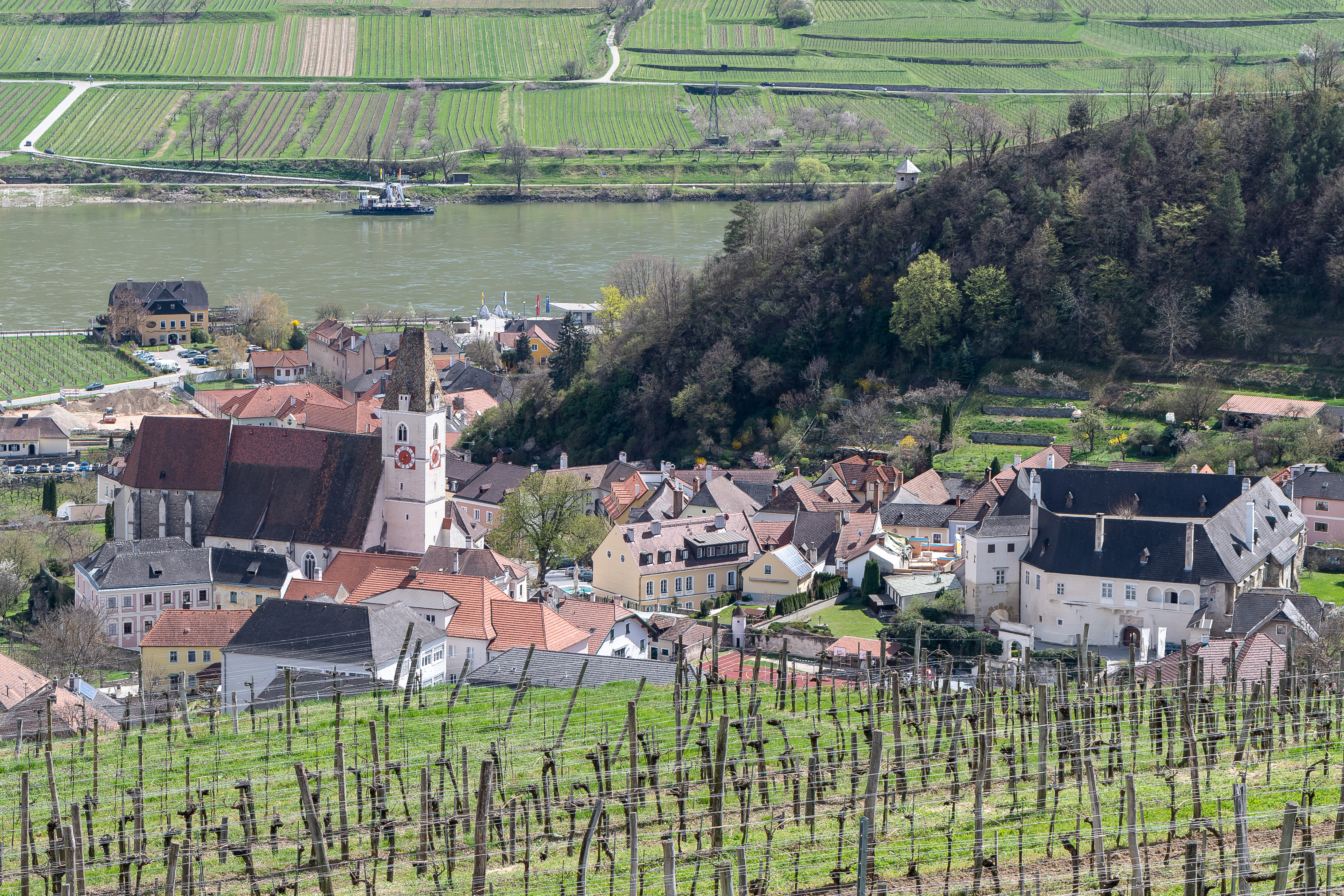 Spitz an der Donau is a small town in the district of Krems-Land (Lower Austria) and part of the UNESCO World Heritage area Wachau.